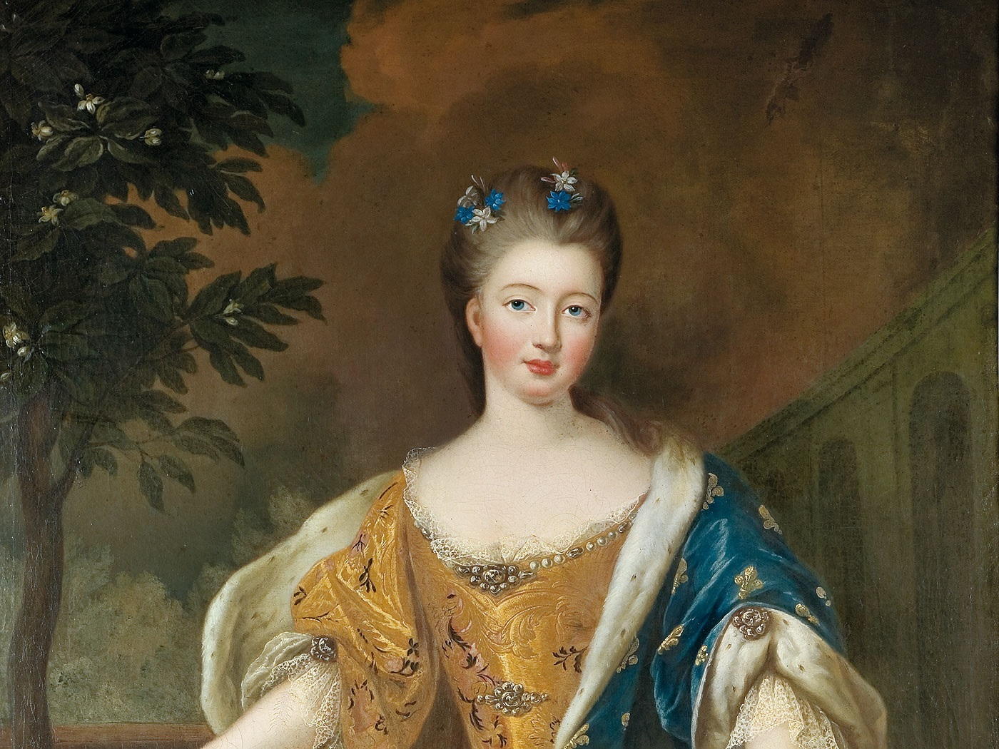 Portrait of Marie Louise Élisabeth d'Orléans (1695-1719), part of Elector Max Emanuel’s Great Gallery of Beauties shows five portraits of ladies at the court of Louis XIV, painted by Pierre Gobert around 1715.